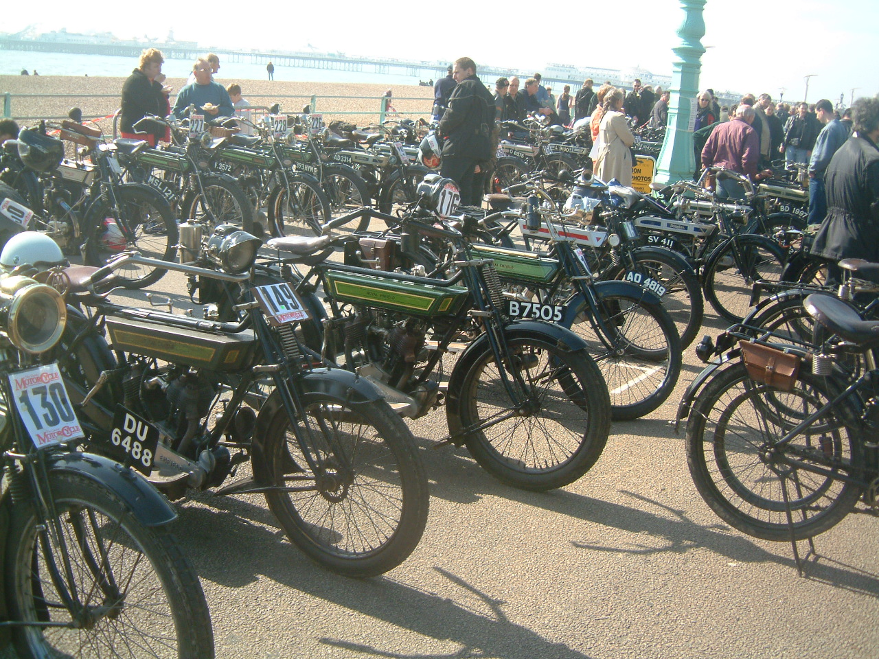 Taken during the London to Brighton run last year.